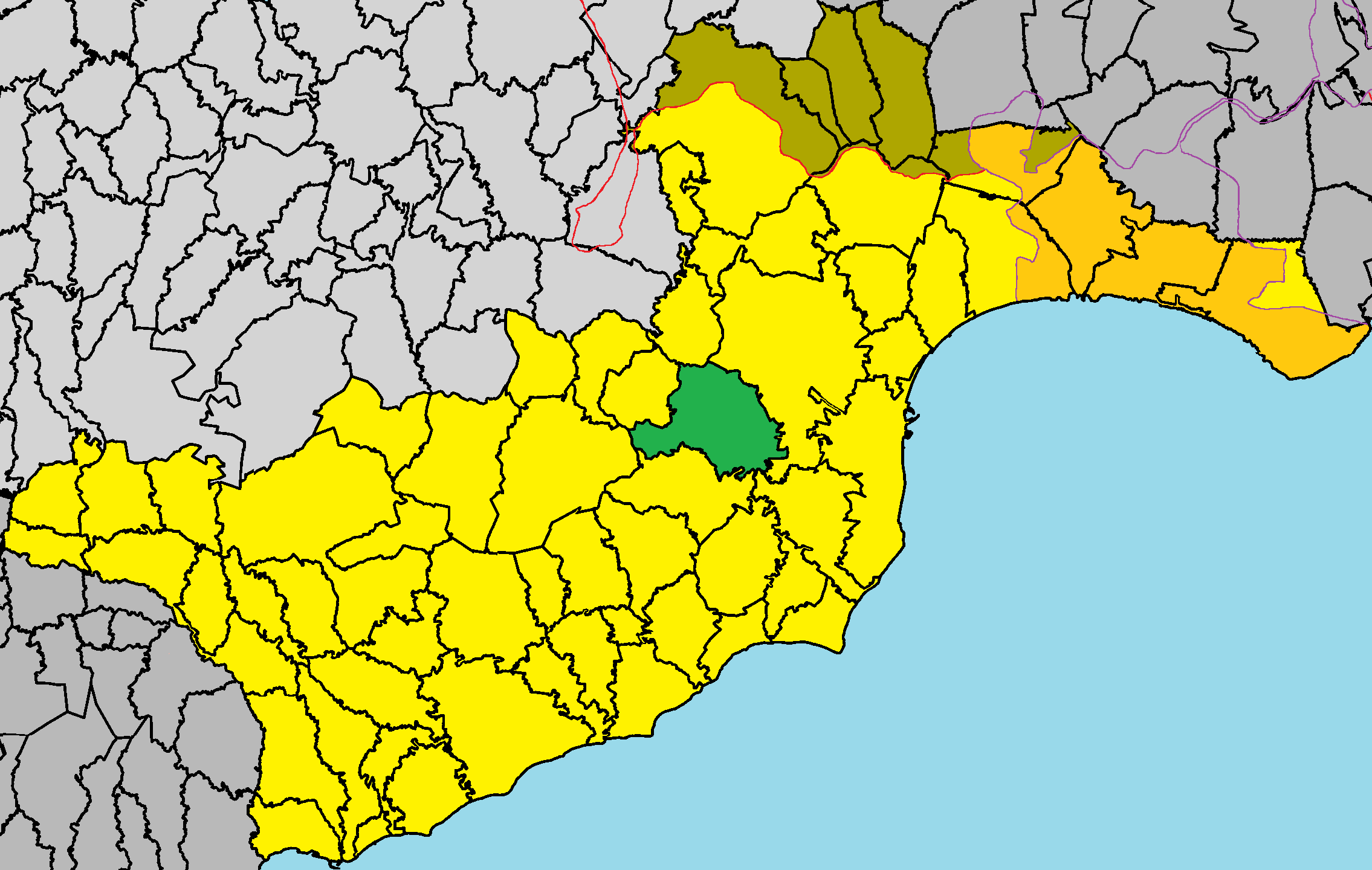 Kalo Chorio in Larnaca District.